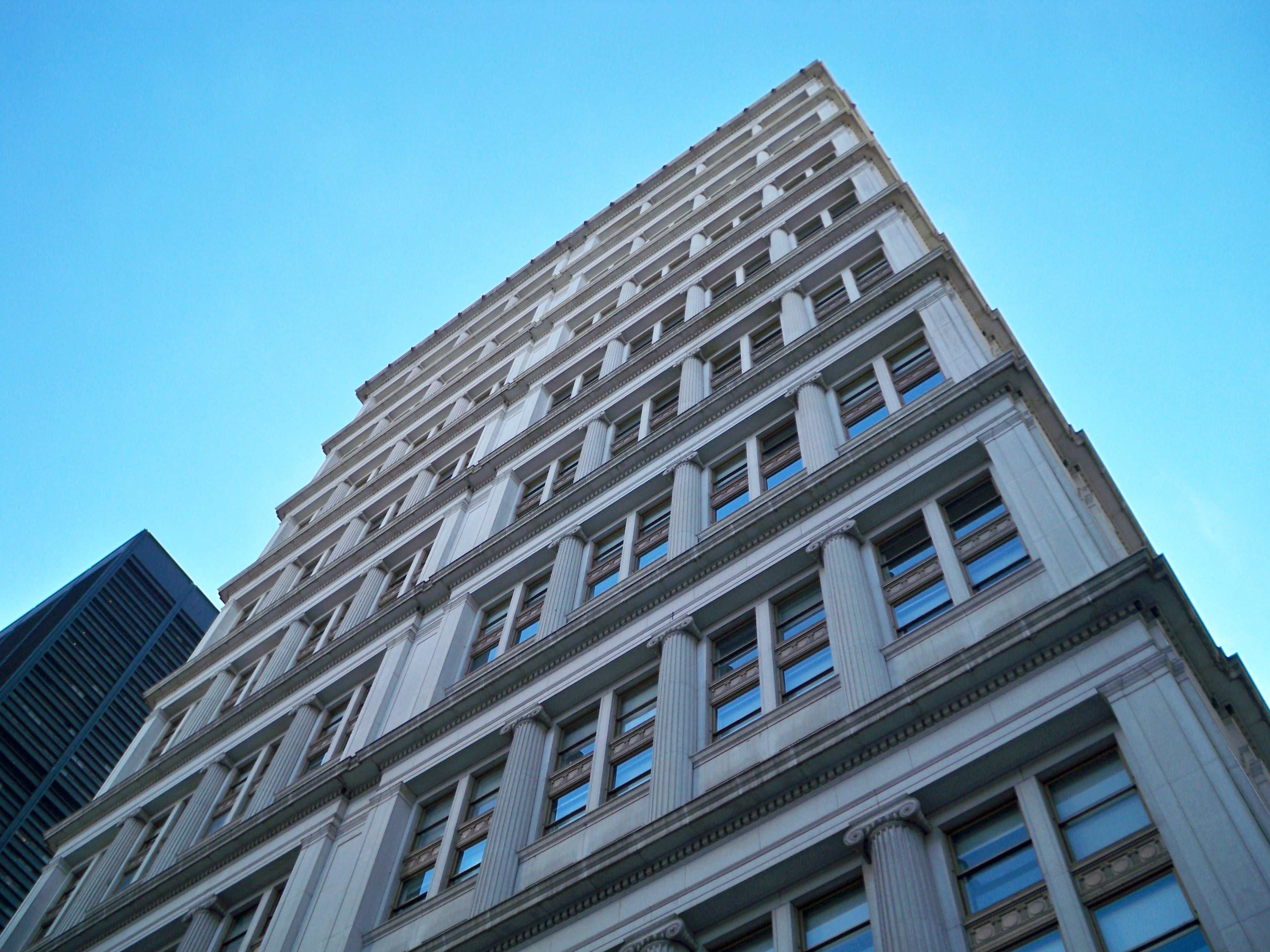 195 Broadway, the former AT&T building.